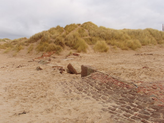 Ruins of lifeboat station, Formby Point. Britain's first lifeboat station was here by 1776 - see the Formby Civic Society website . In 1793 when rebuilt it was 100 yards above high water - now it is at high water. It was a lifeboat station until 1918. The building was used as a cafe, and was demolished in 1965.